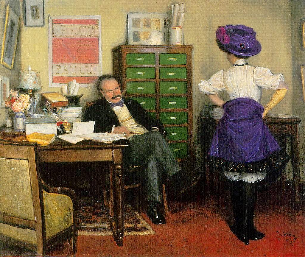 The audition